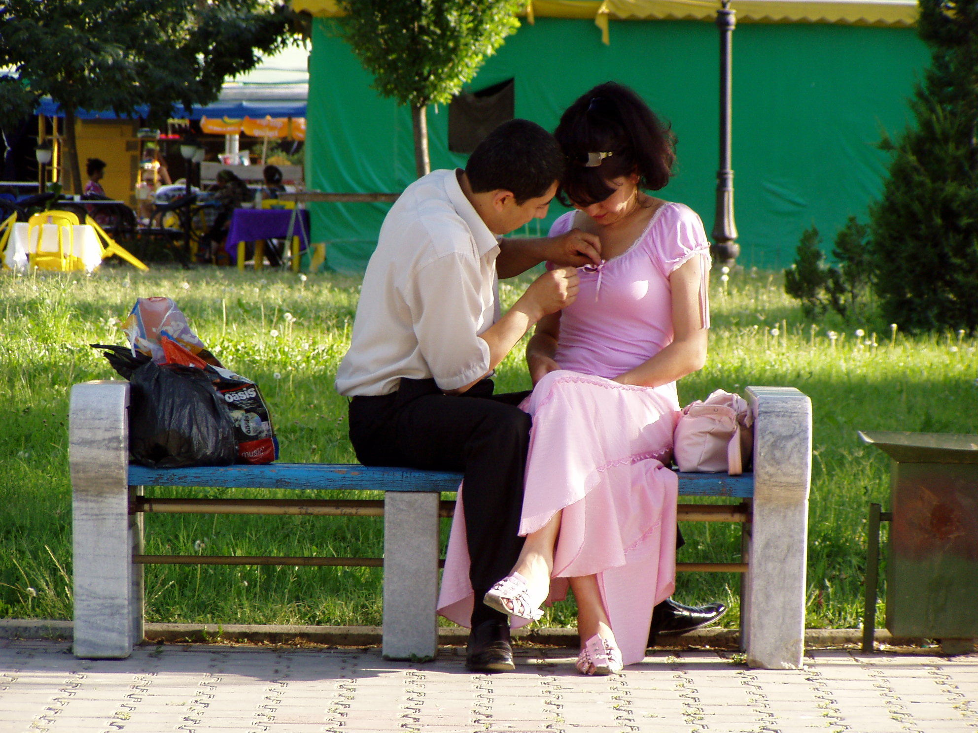 Young couple in Tashkent, Uzbekistan